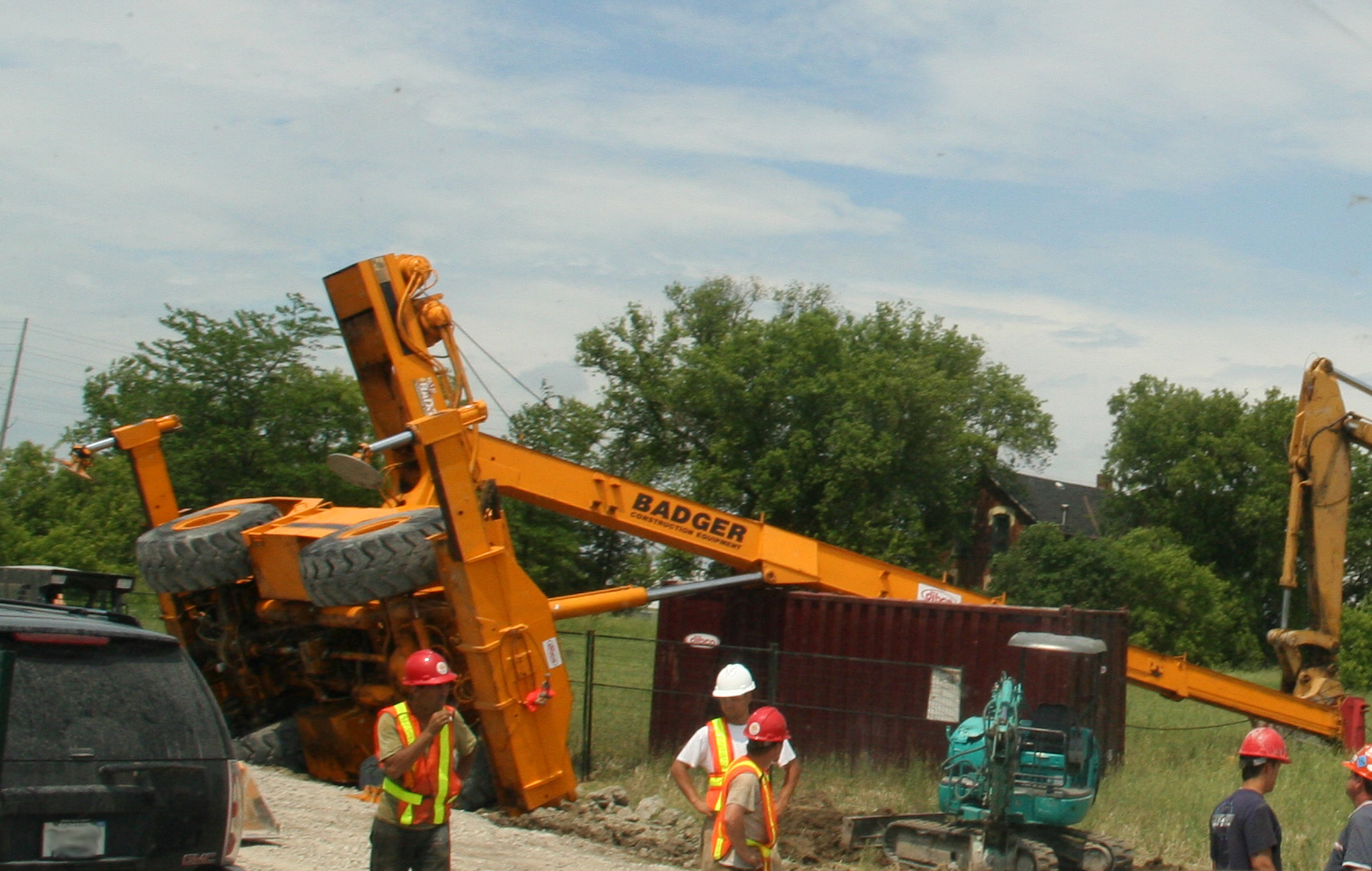 Mobile rough terrain construction crane. Soft ground gave way under the outrigger during the lift of a sea-going container.